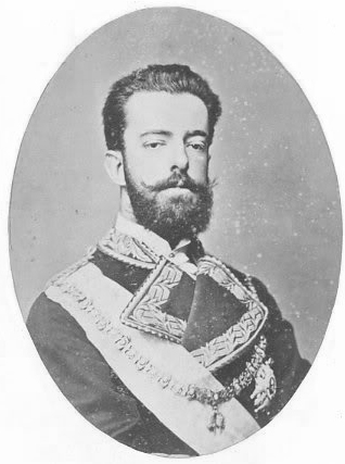 Amadeo, the only Savoy King of Spain